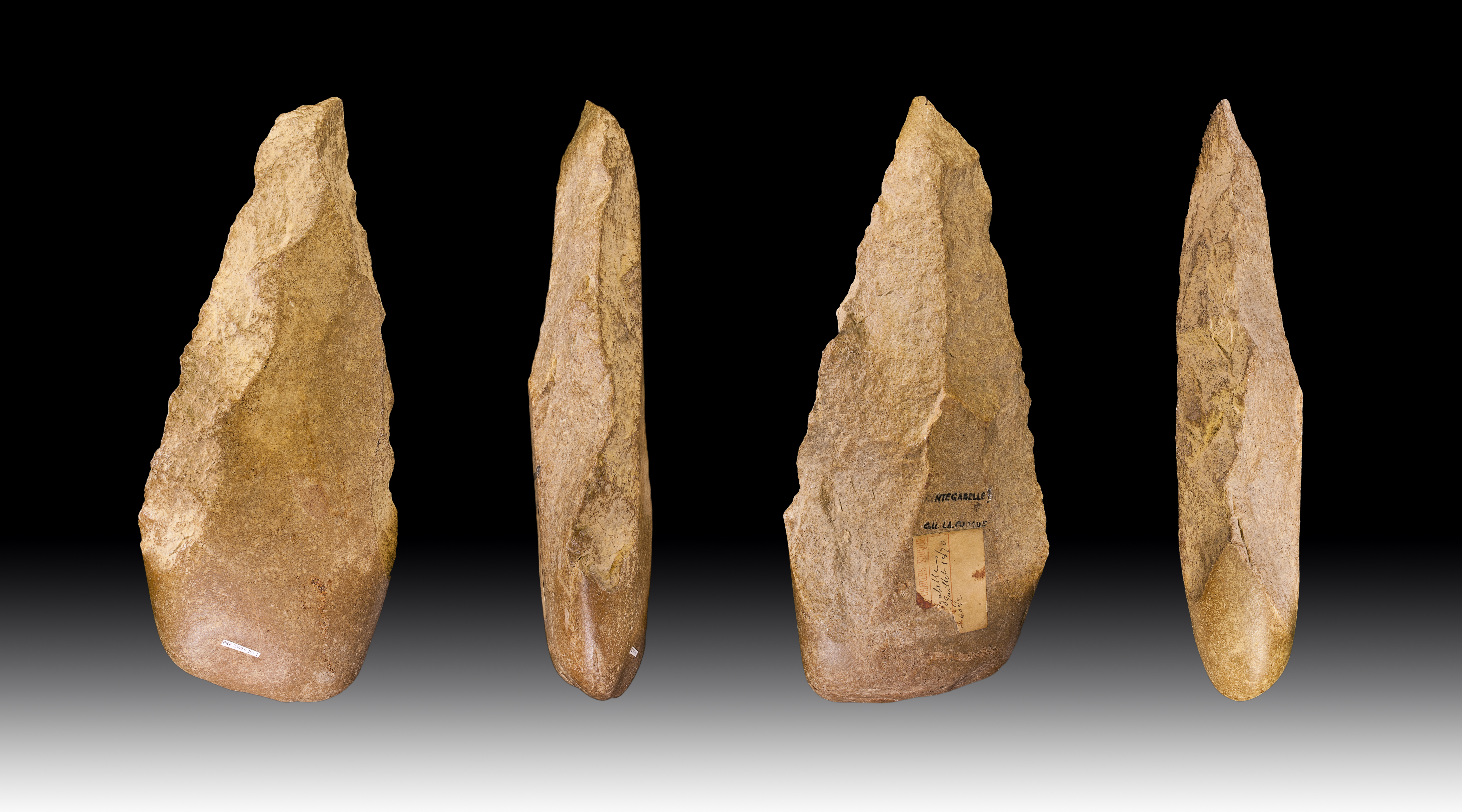 Different views of the same specimen.